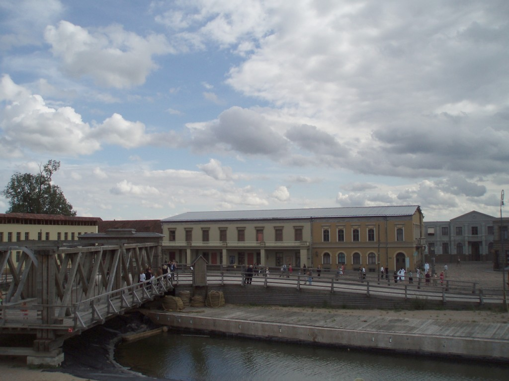 View of Cinevilla, a film set in Slampes parish outside Tukums in Latvia